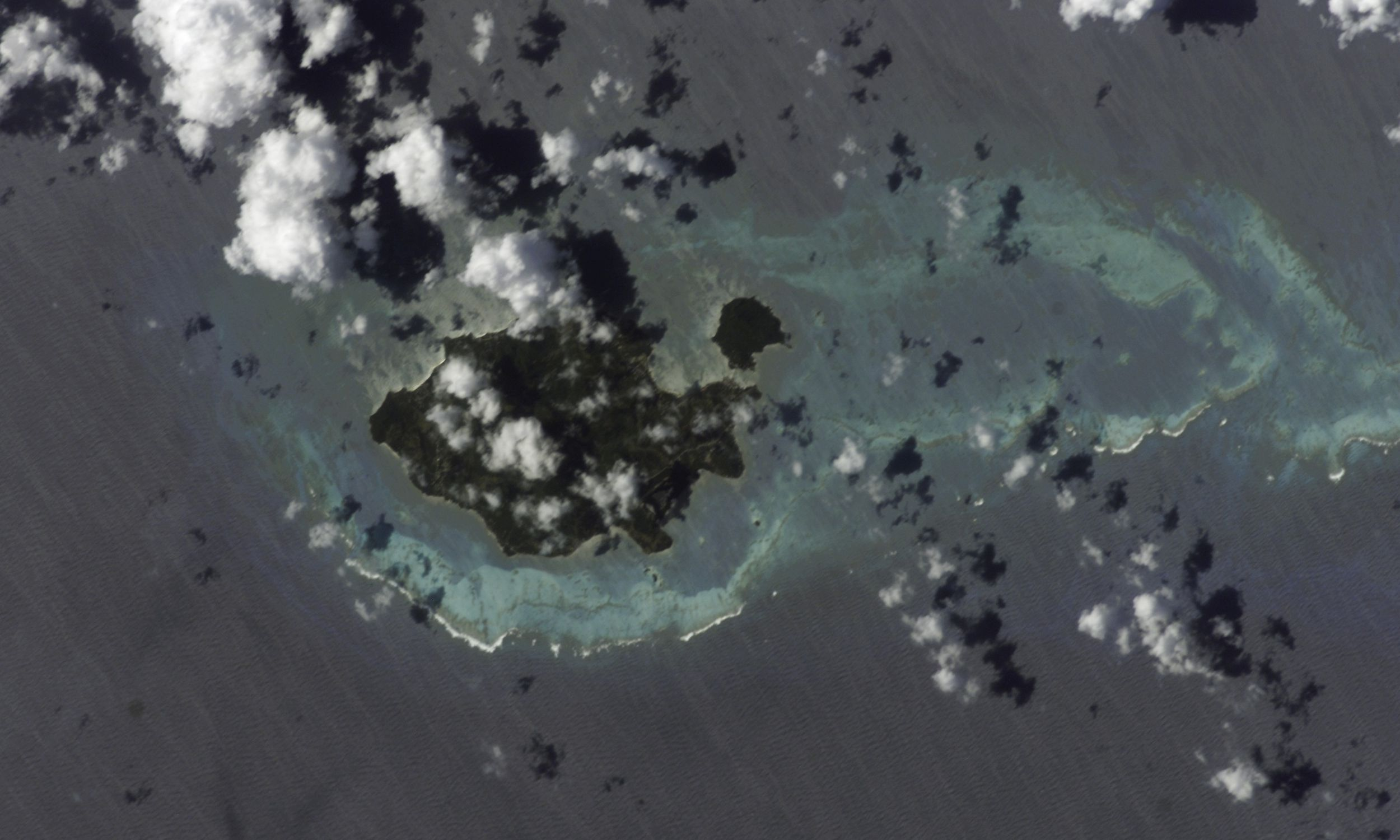 NASA astronaut image of Providencia Island (Colombia) in the Caribbean Sea